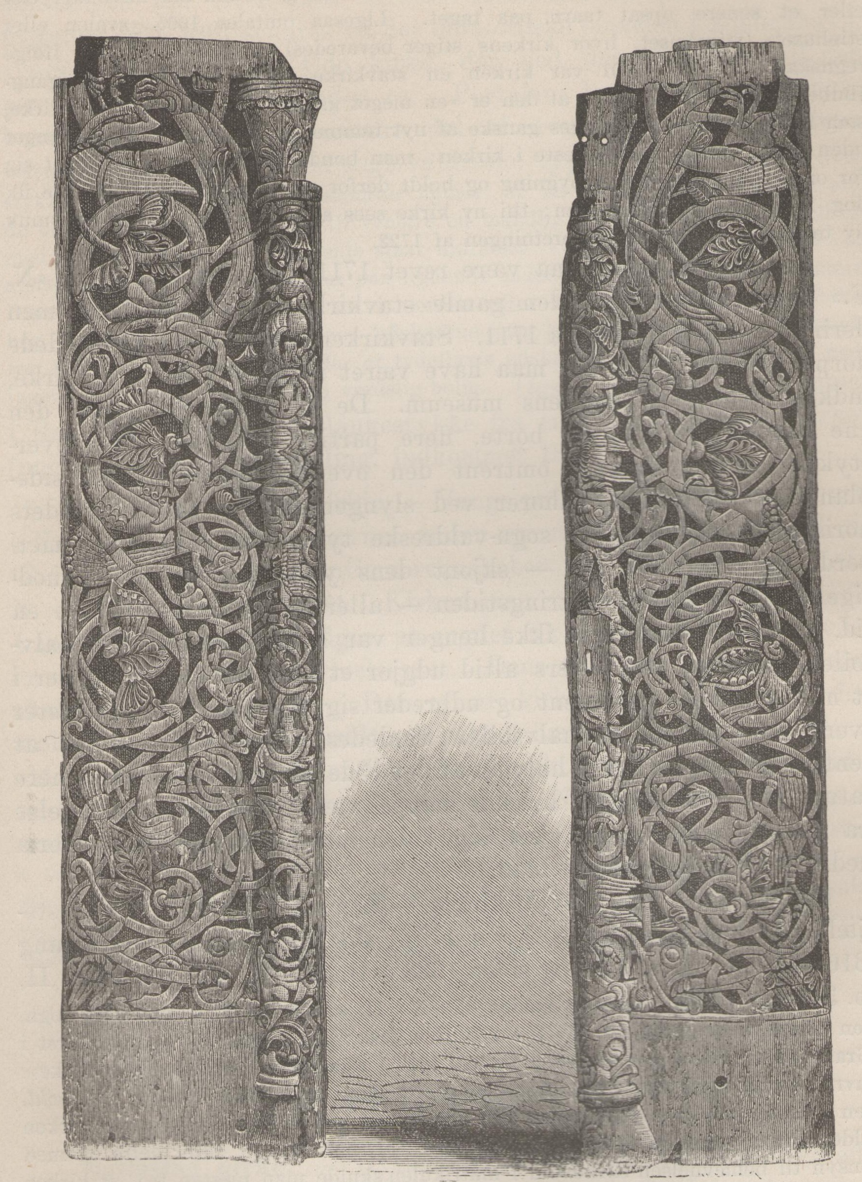 Print of portal from Ulvik stave church, based on a photography